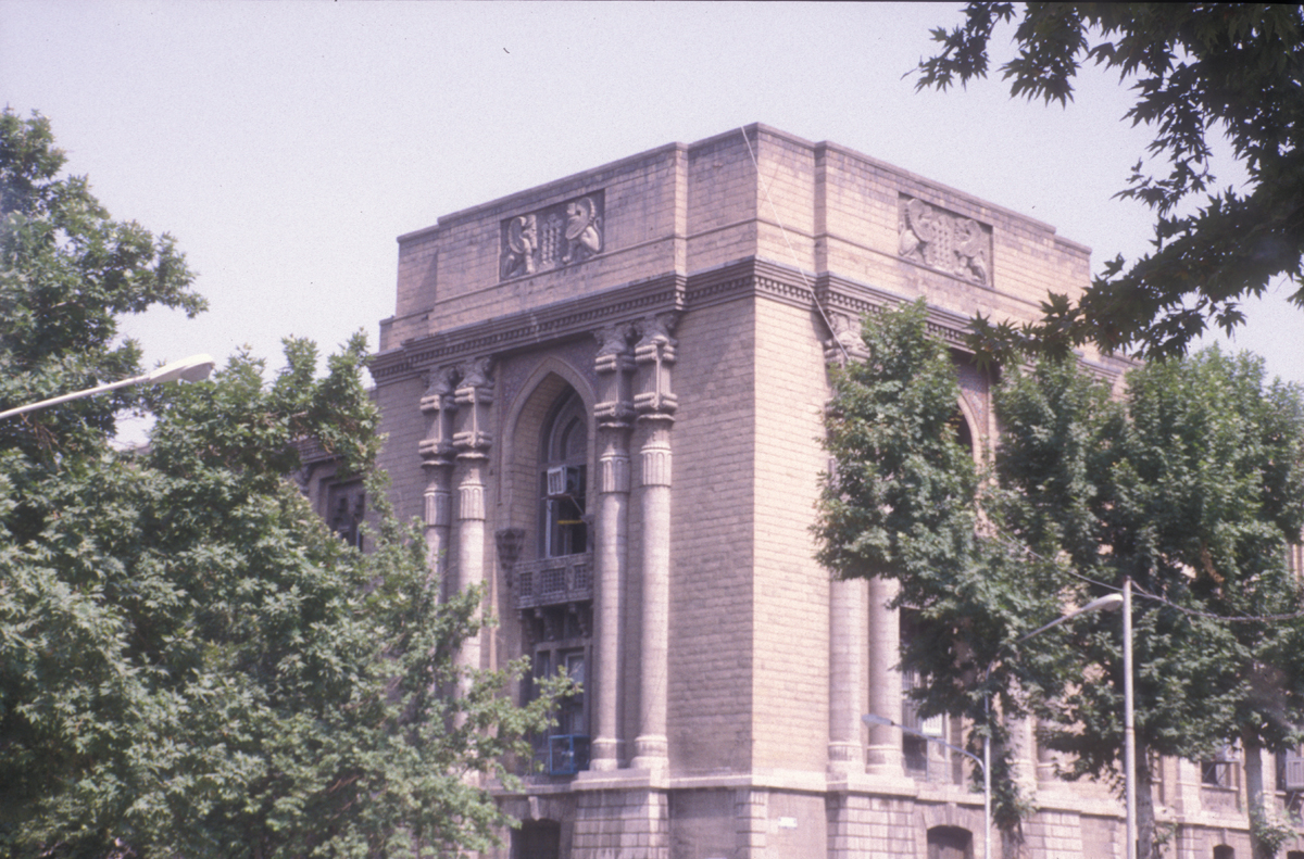 The newly renovated building of Iran's Ministry of Foreign Affairs uses pre-Islamic Persian architecture extensively in its facade. This image is taken by a Fuji 200 slide camera.